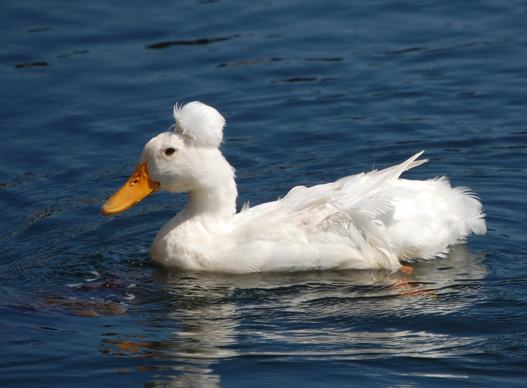 Domestic crested duck (a variant of Anas platyrhynchos f. domestica) in the harbor of Camden, Maine.